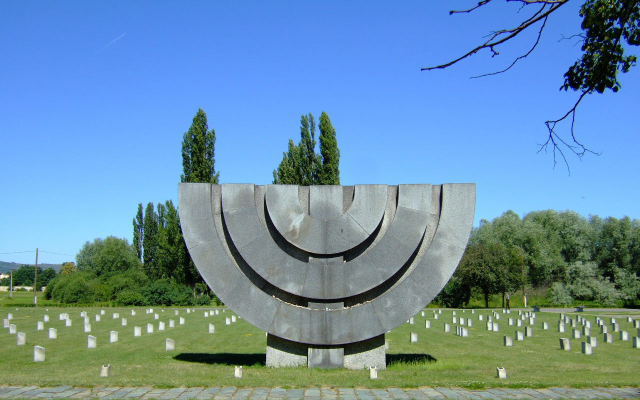 Monument to the ghetto victims at Jewish cemetery in Terezín Aufnahme: 1. Juli 2006 Url